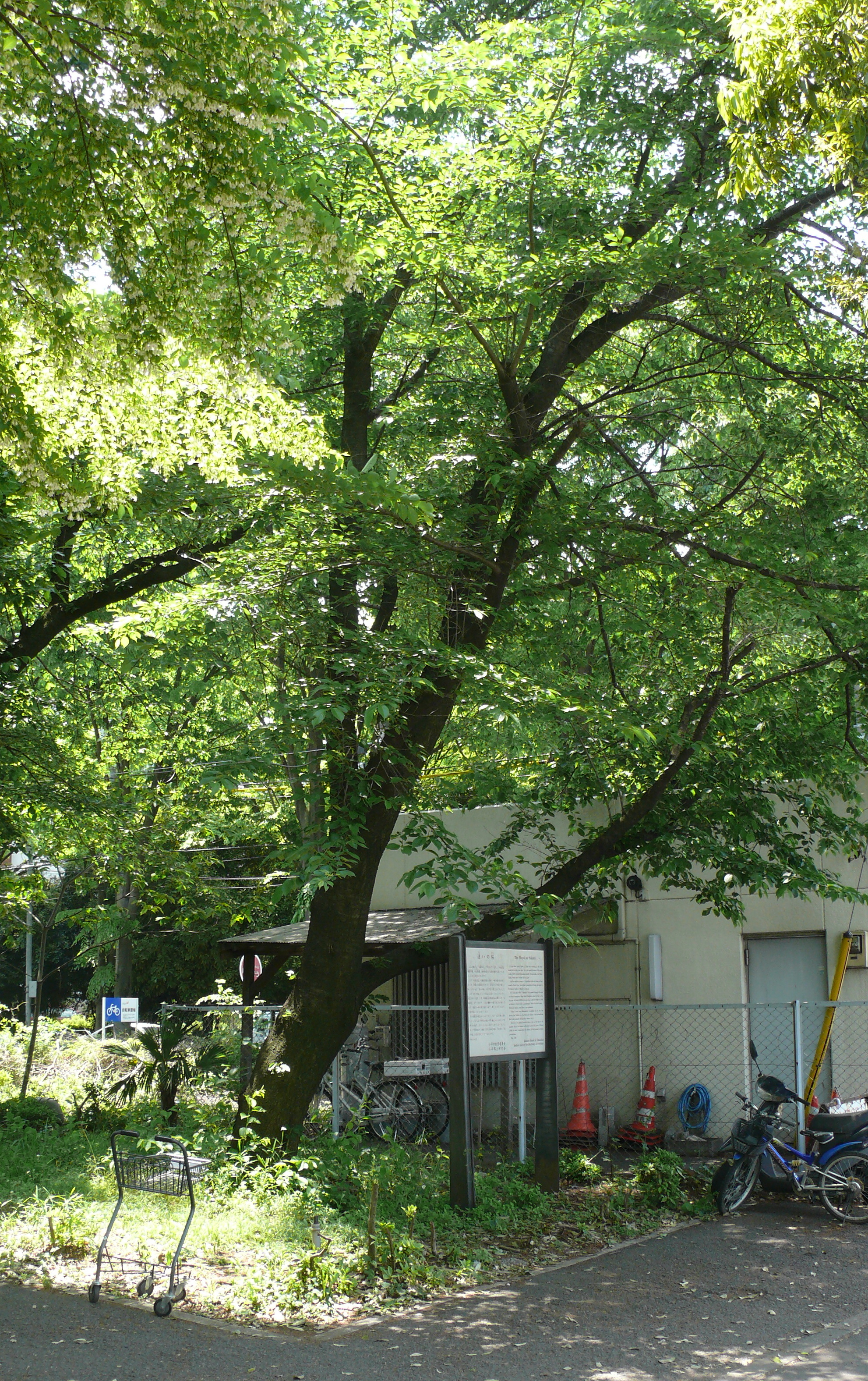 The Mayoi no Sakura in Kodaira, Tokyo, Japan. Tradition has it that in the year 1333 when Nitta Yoshisada was conducting the Kōzuke-Musashi Campaign and on his way to conquer Kamakura, he was leading his army south on the Kamakura Kaido. He came to a Nine Roads Crossing and was confused as to which road to take. He is said to have planted a cherry tree to act as a guidepost. Cherry trees were subsequently replanted over the years, the most recent being planted in 1980.